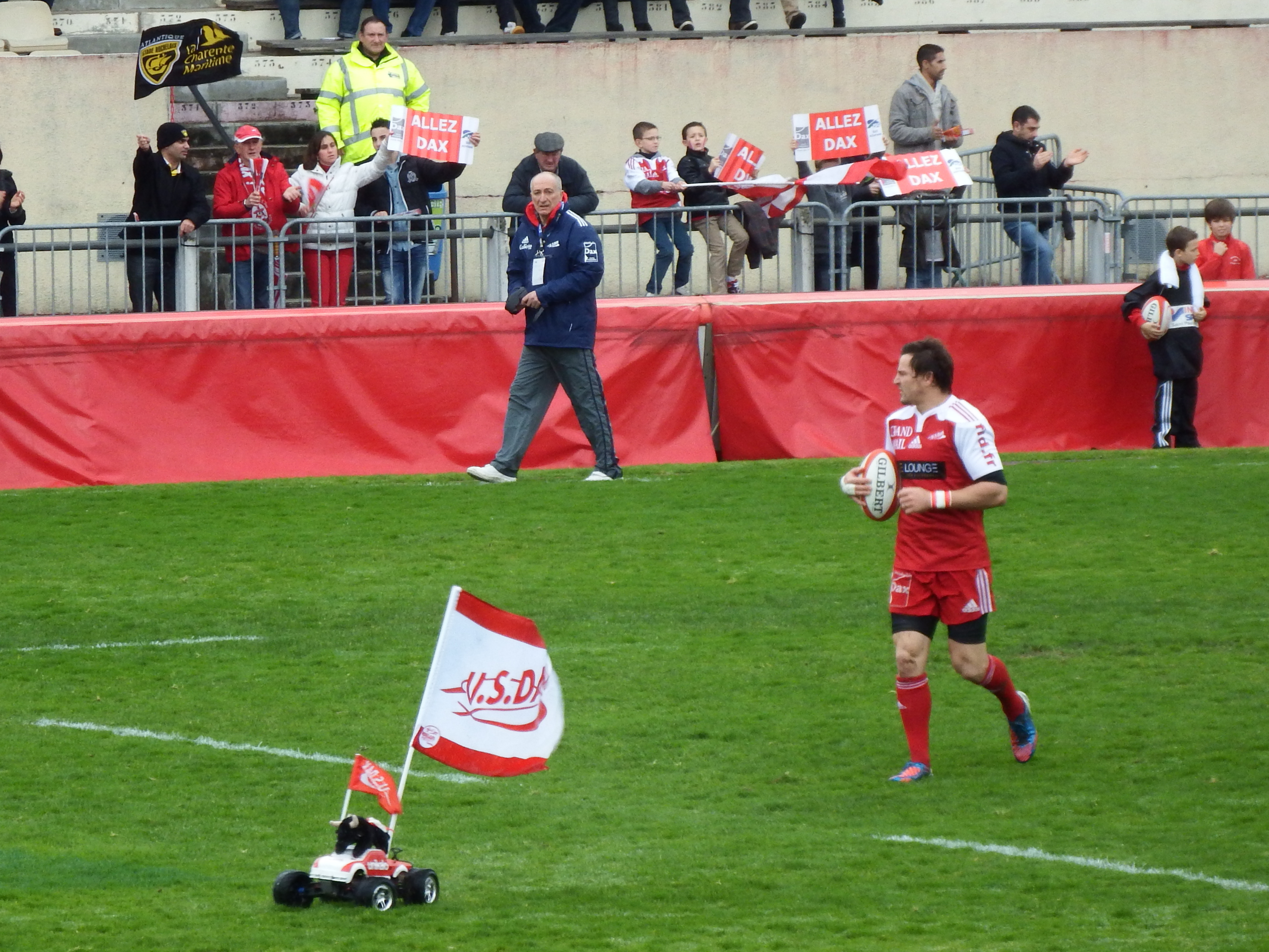 Pro D2 2013-2014 — 26 January 2014, Stade Maurice-Boyau. Match between: US Dax — Atlantique Stade Rochelais